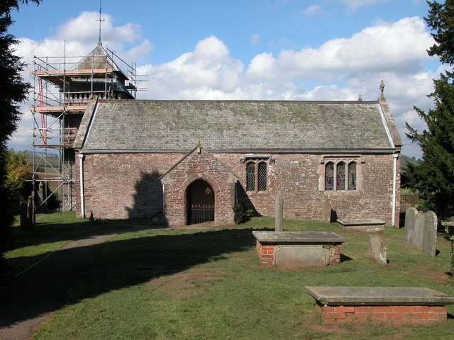 St Maughans church. Small church down a no through road. Though the church is stone built, surprisingly, inside the pillars are wooden.